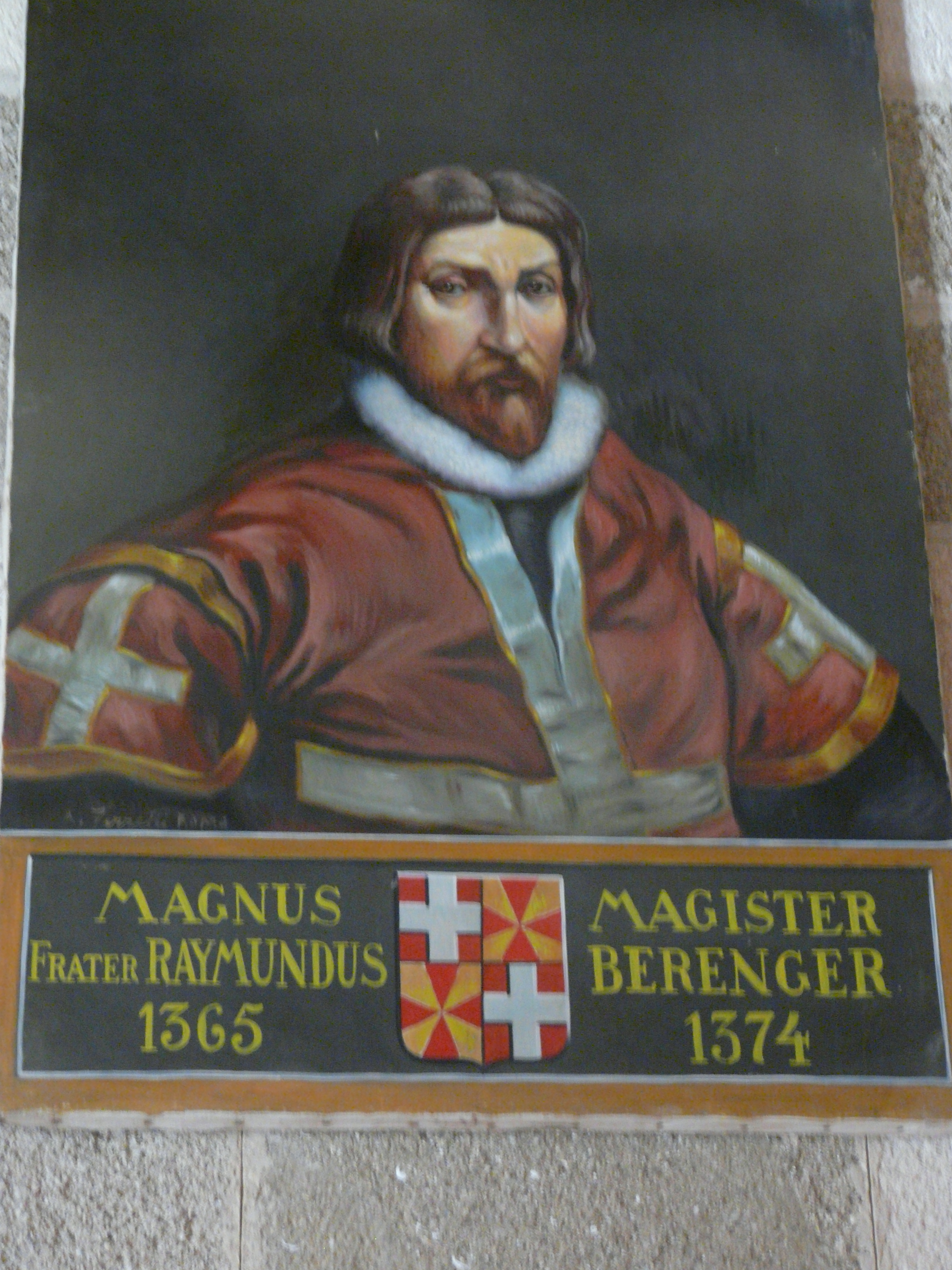 Palace of the Grand Master of the Knights of Rhodes